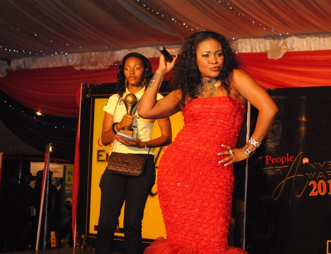 Muma Gee at the 2010 City People Awards